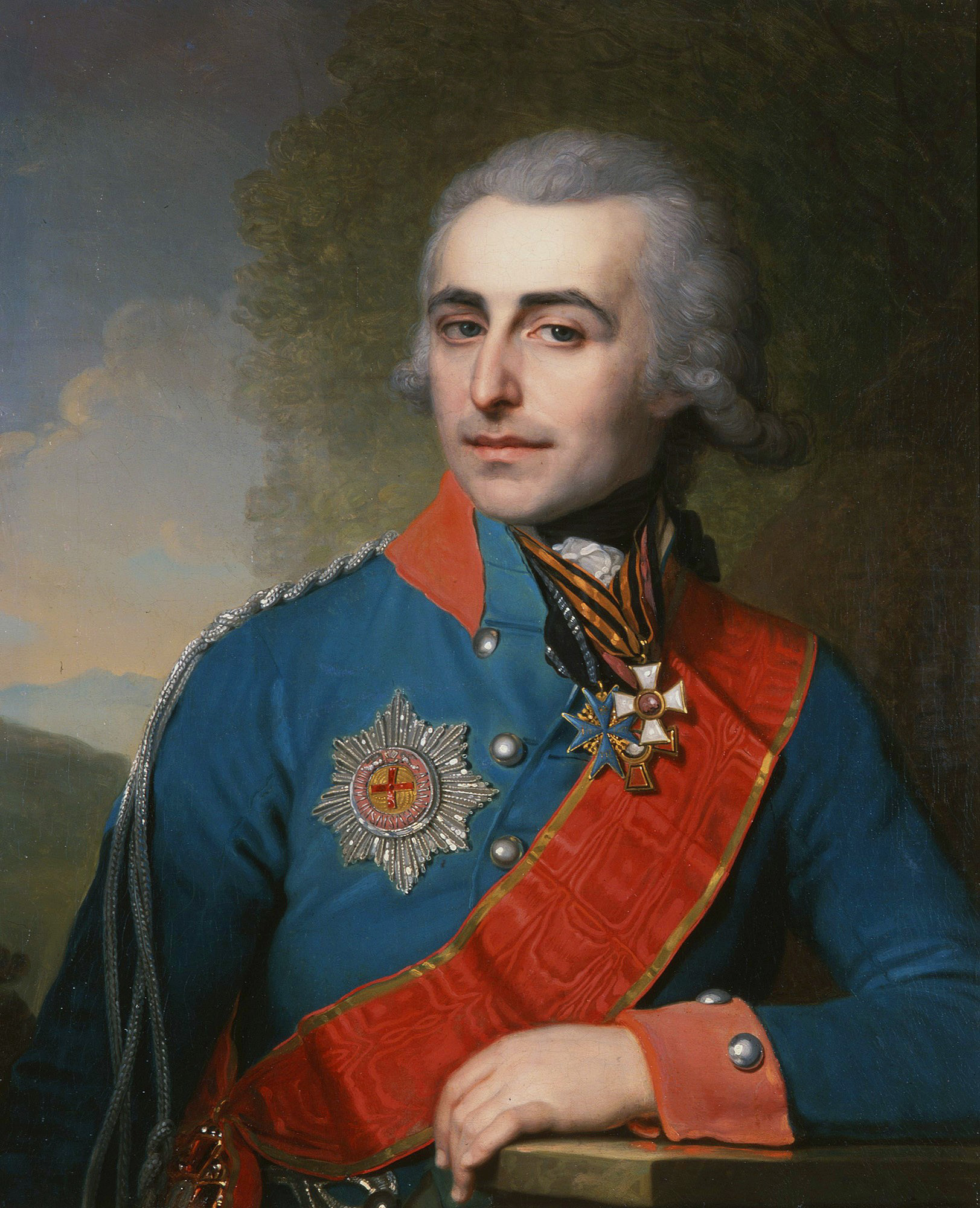 Portrait of Pyotr Aleksandrovich Tolstoy (1769-1844)